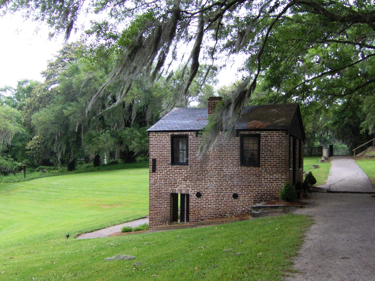 The springhouse and chapel at Middleton Place, near Charleston, South Carolina, USA.